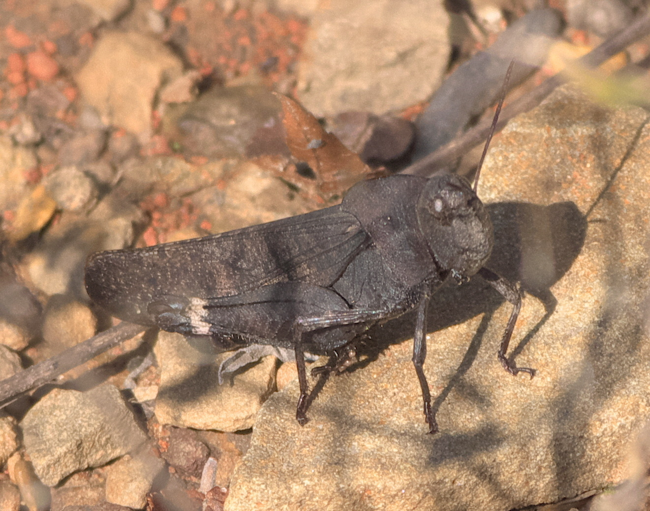 Arphia xanthoptera, Autumn Yellow-winged Grasshopper, ID Confidence: 89